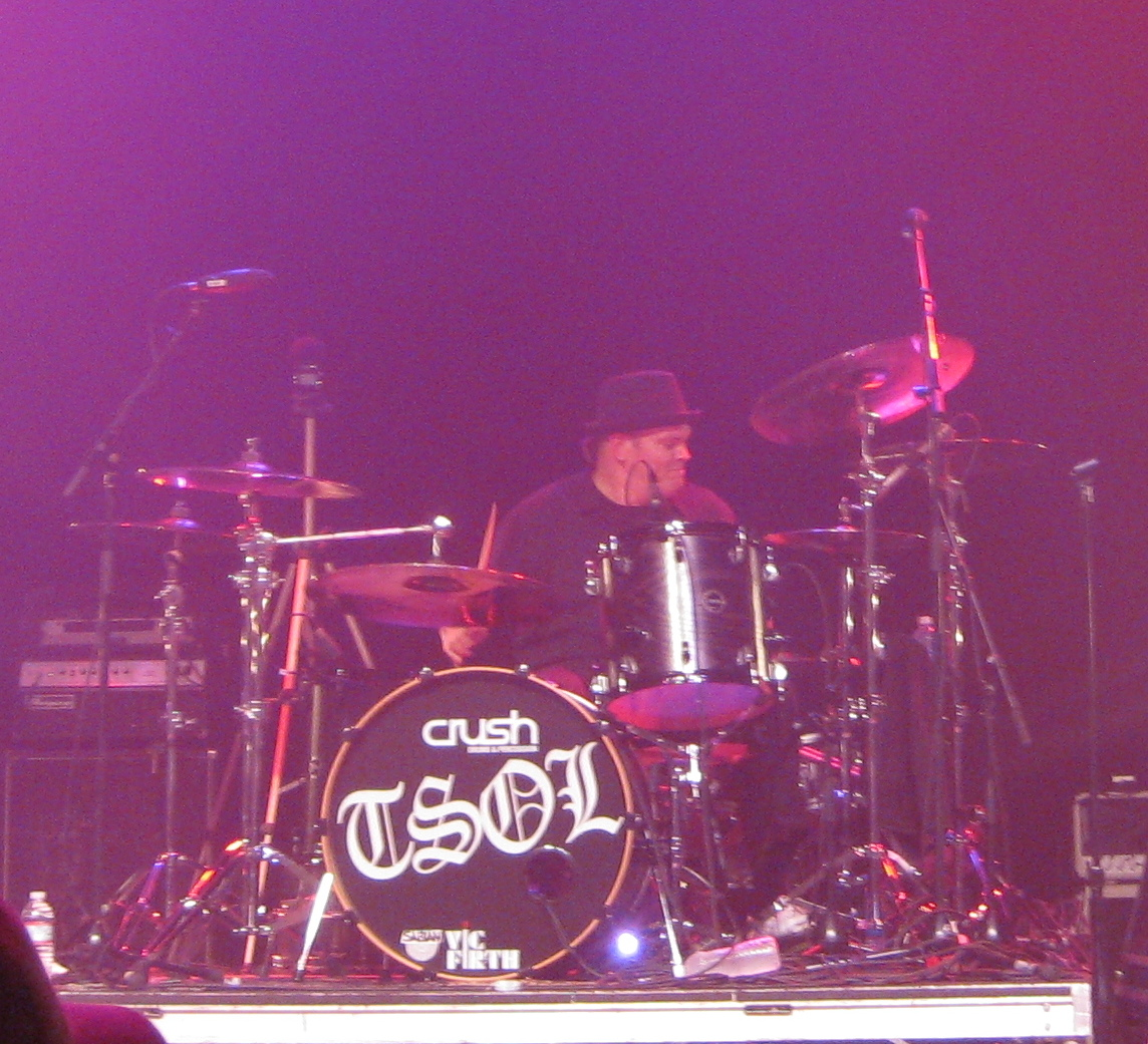 TSOL performing December 17, 2011 at the Santa Monica Civic Auditorium in Santa Monica, California as part of the GV30 event. Left to right: bassist Mike Roche, drummer Tiny Bubz, guitarist Ron Emory, and singer Jack Grisham.